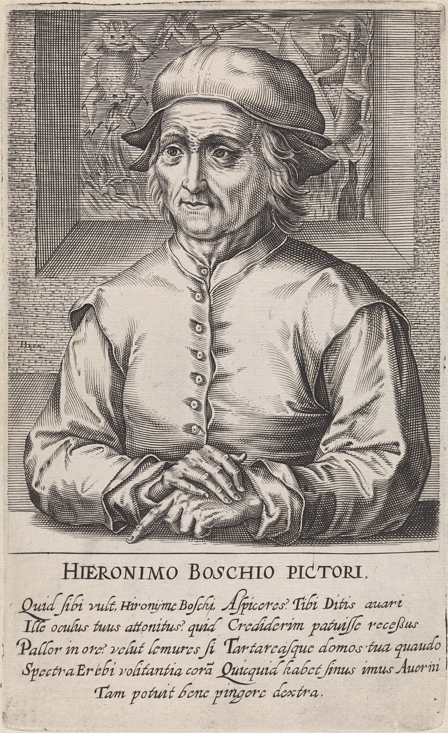 Part of the series Pictorum Aliquot Celebrium Praecipuae Germaniae Inferioris Effigies.